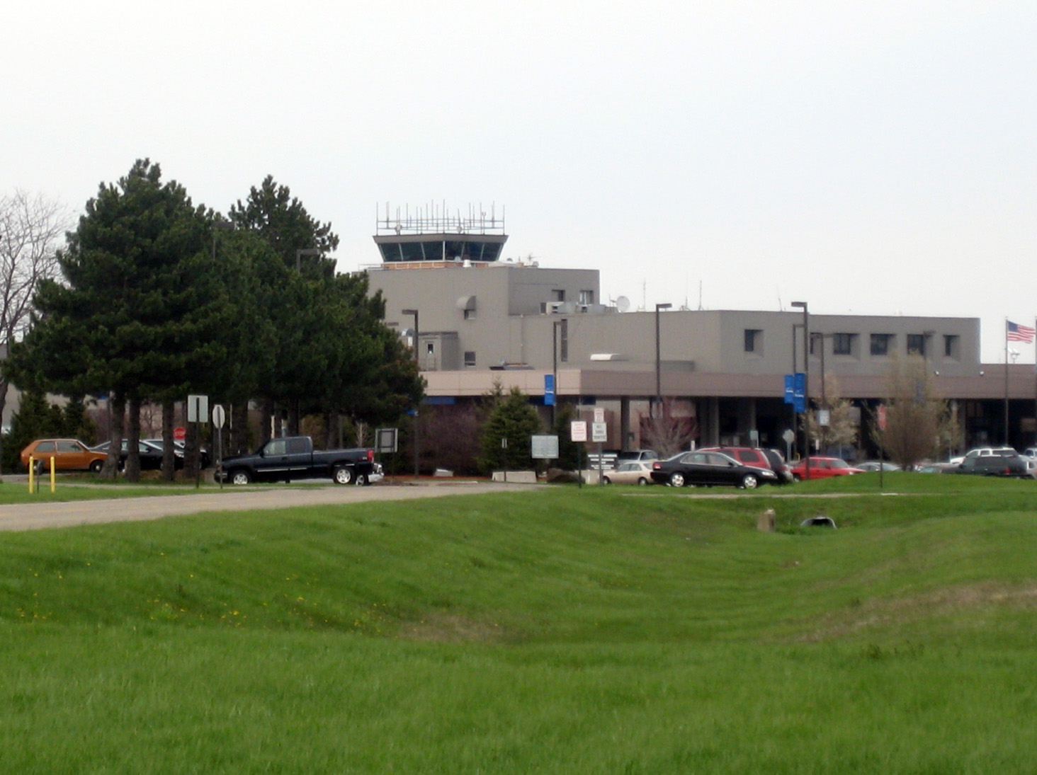 Capital Region International Airport terminal building and control tower, Lansing, Michigan. Photo taken from Aviation Tech Drive facing northeast.